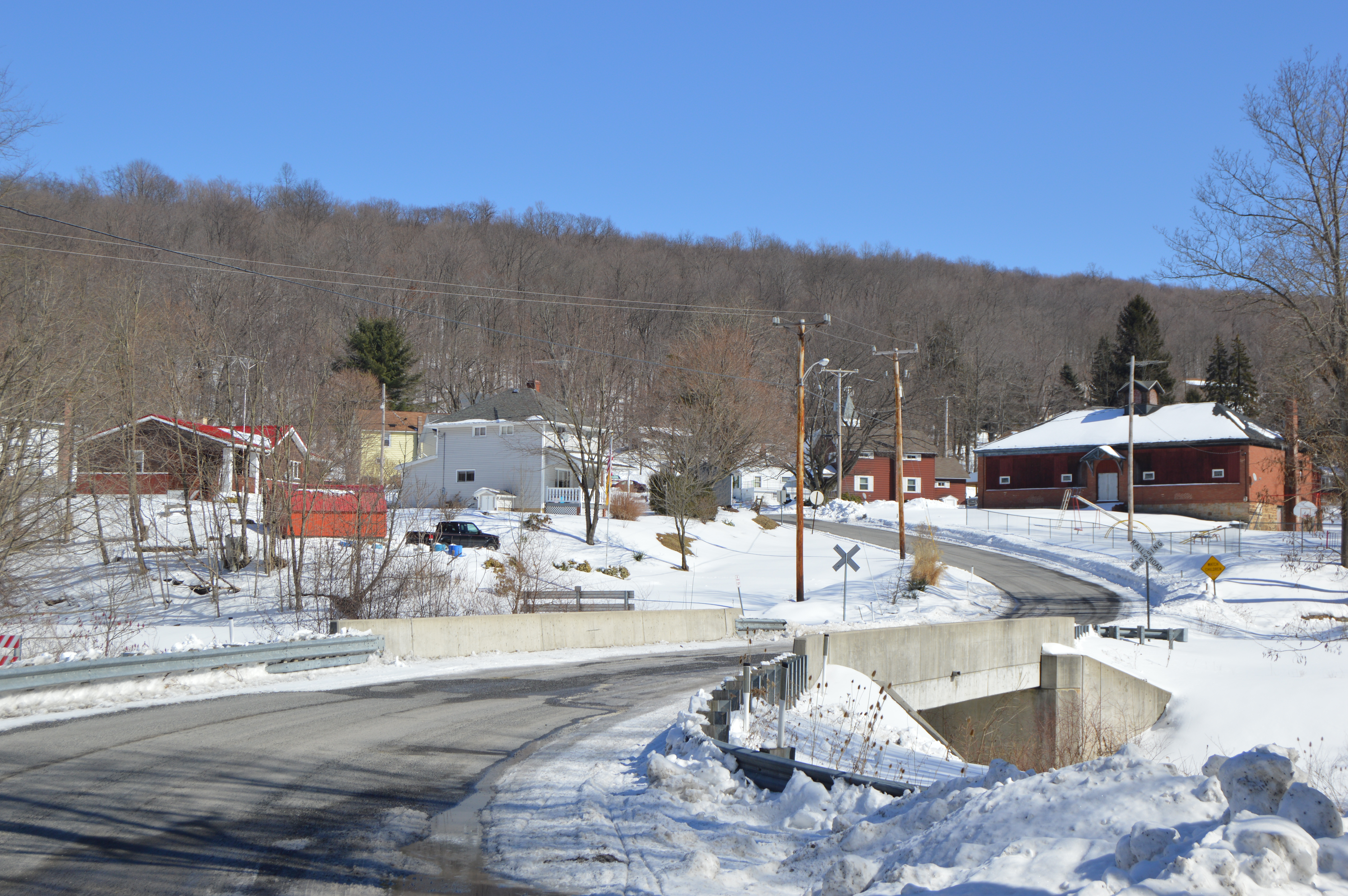 Looking east on Amsbry Road toward the community of Amsbry in Gallitzin Township, Cambria County, Pennsylvania, United States.